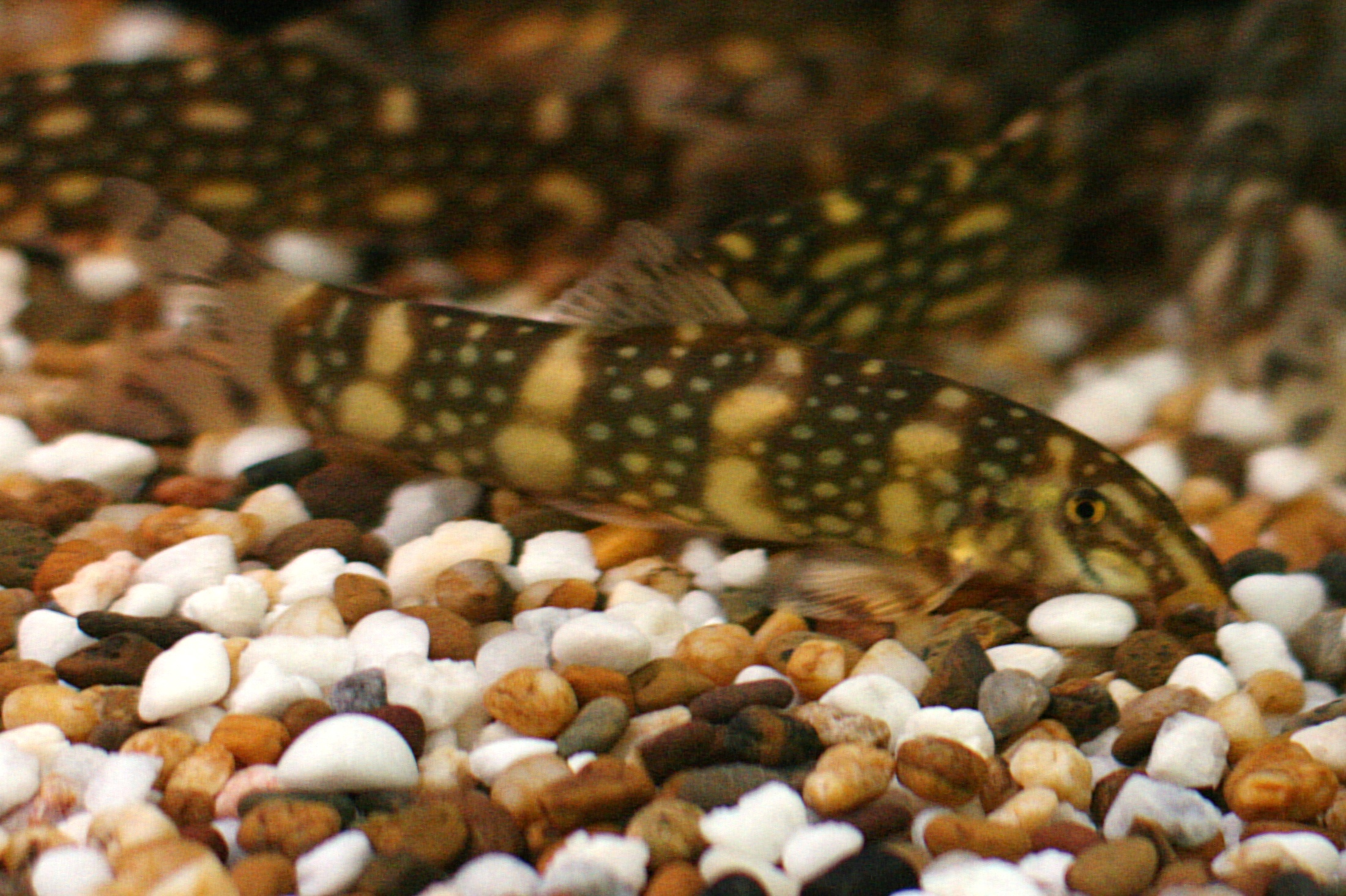 Burmese border loach Botia kubotai. Size about 10cm SL.